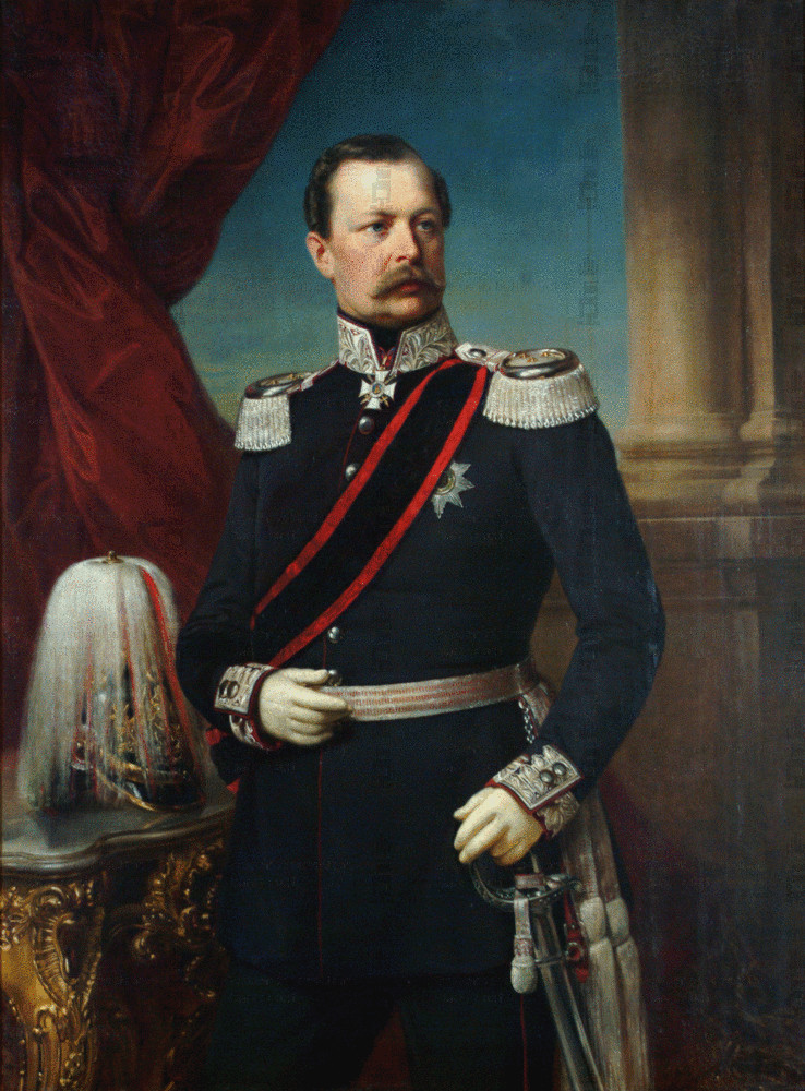 Portrait of Louis III, Grand Duke of Hesse